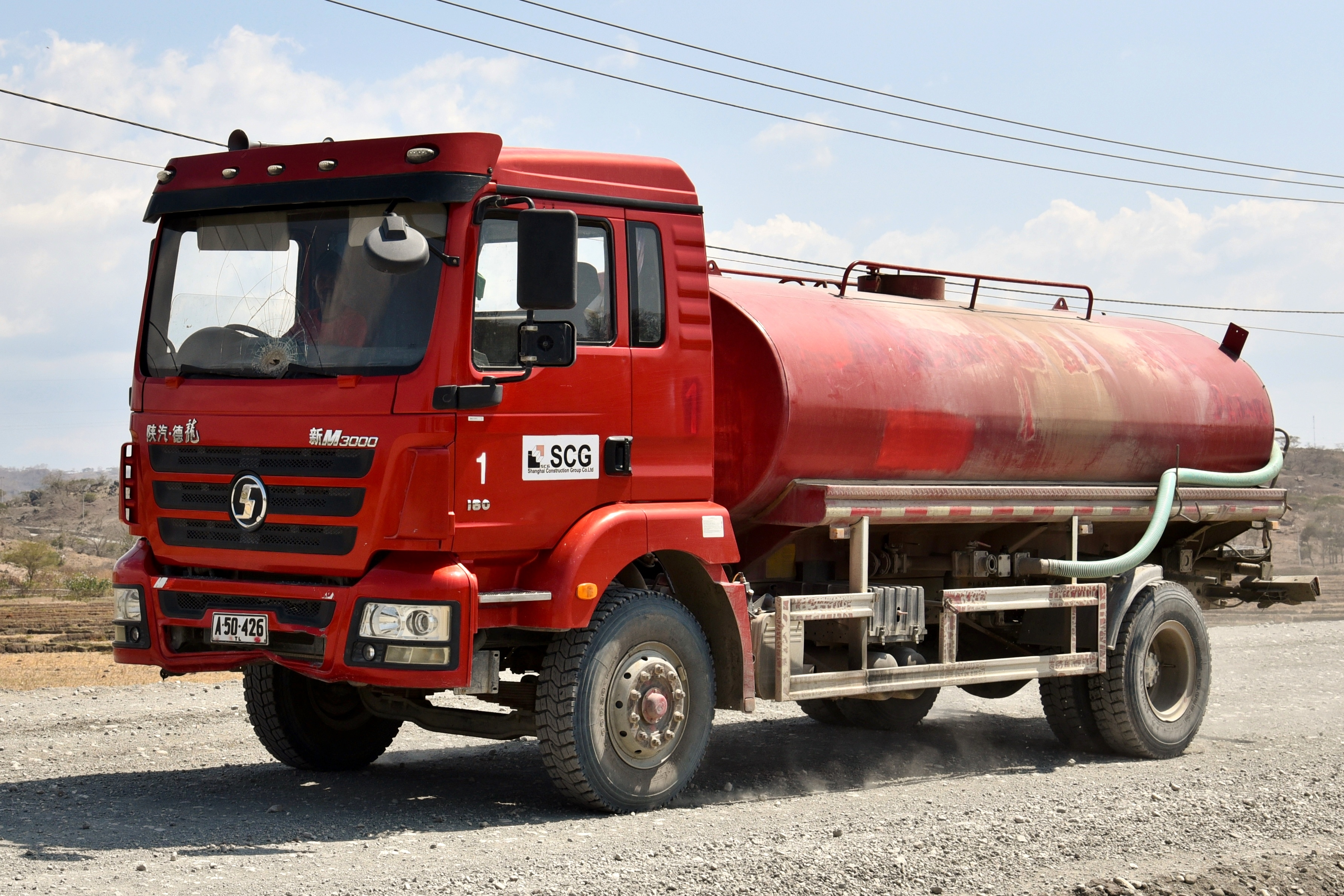 A Shaanxi F3000 street sprinkler truck working on the Dili to Baucau Highway Project in East Timor